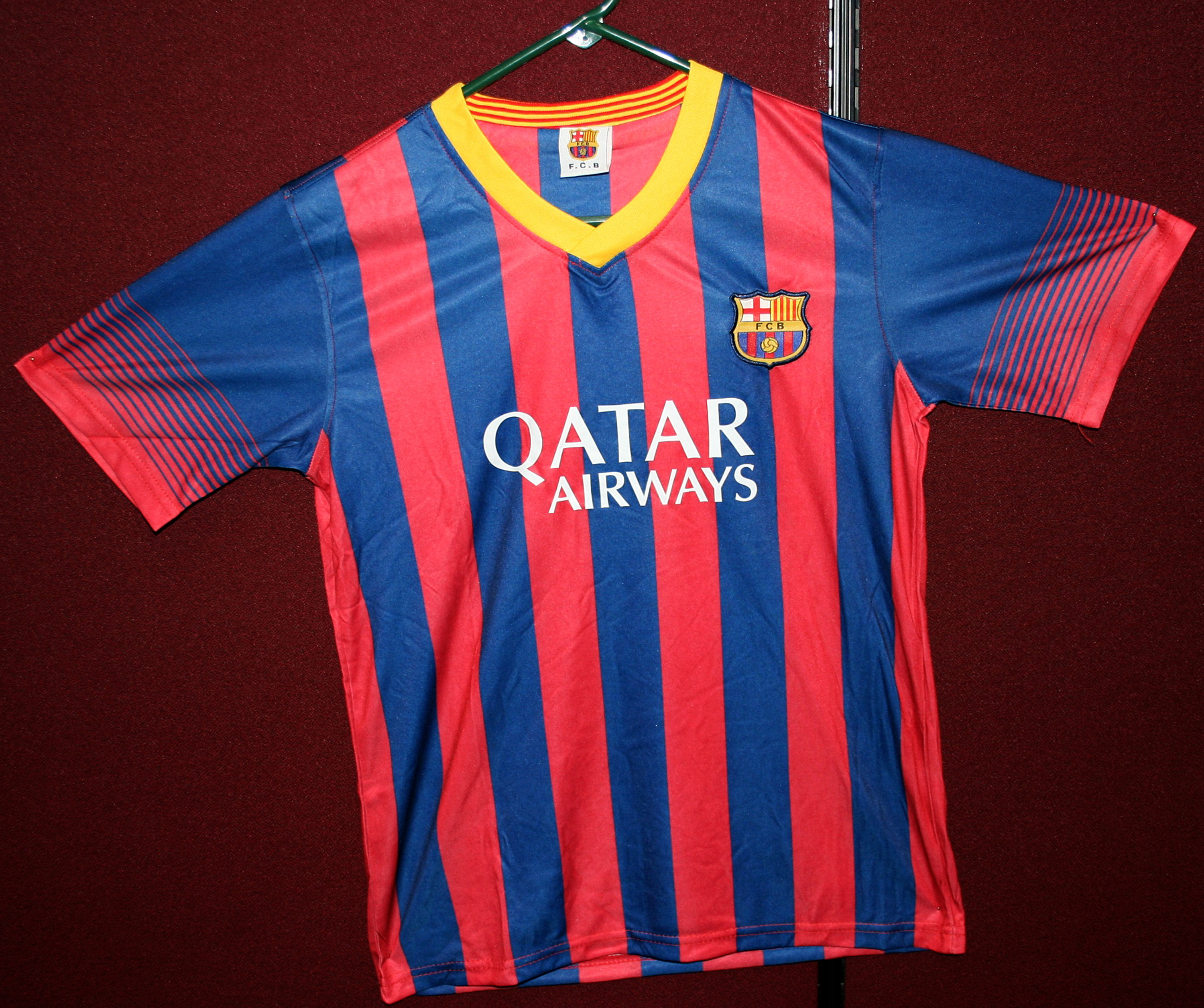 The Football Club of Barcelona was one of seven teams included in a $1 million shipment of counterfeit soccer apparel that U.S. Customs and Border Protection seized in Savannah, Ga., April 11, 2014. (USCBP Photo Handout/Nicole Byram)